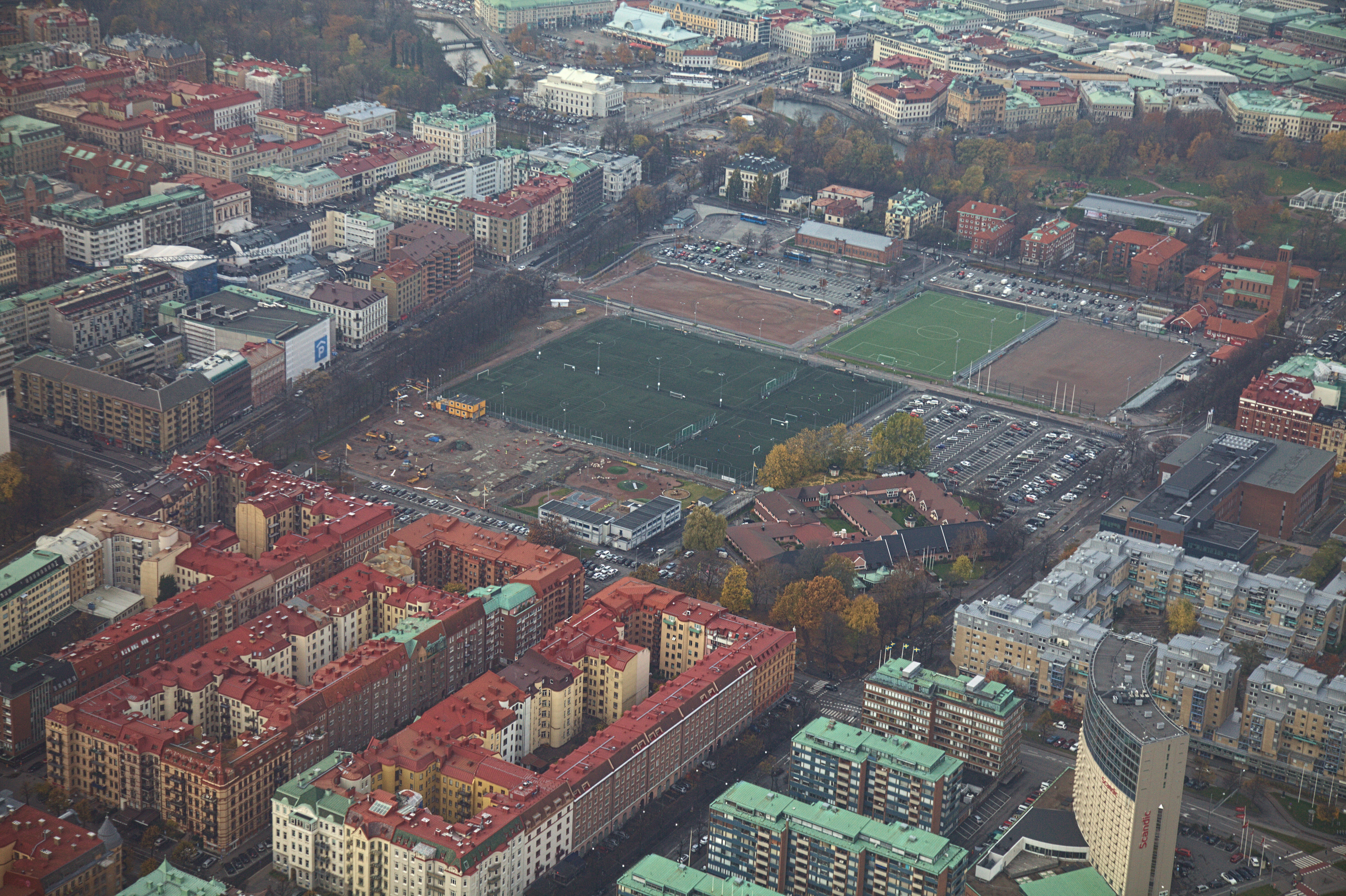 Photo taken on a helicopter over Gothenburg